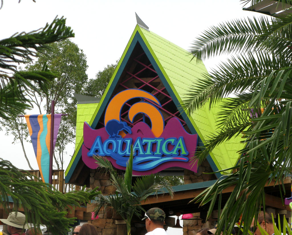 The main entrance to the Aquatica waterpark in orlando.